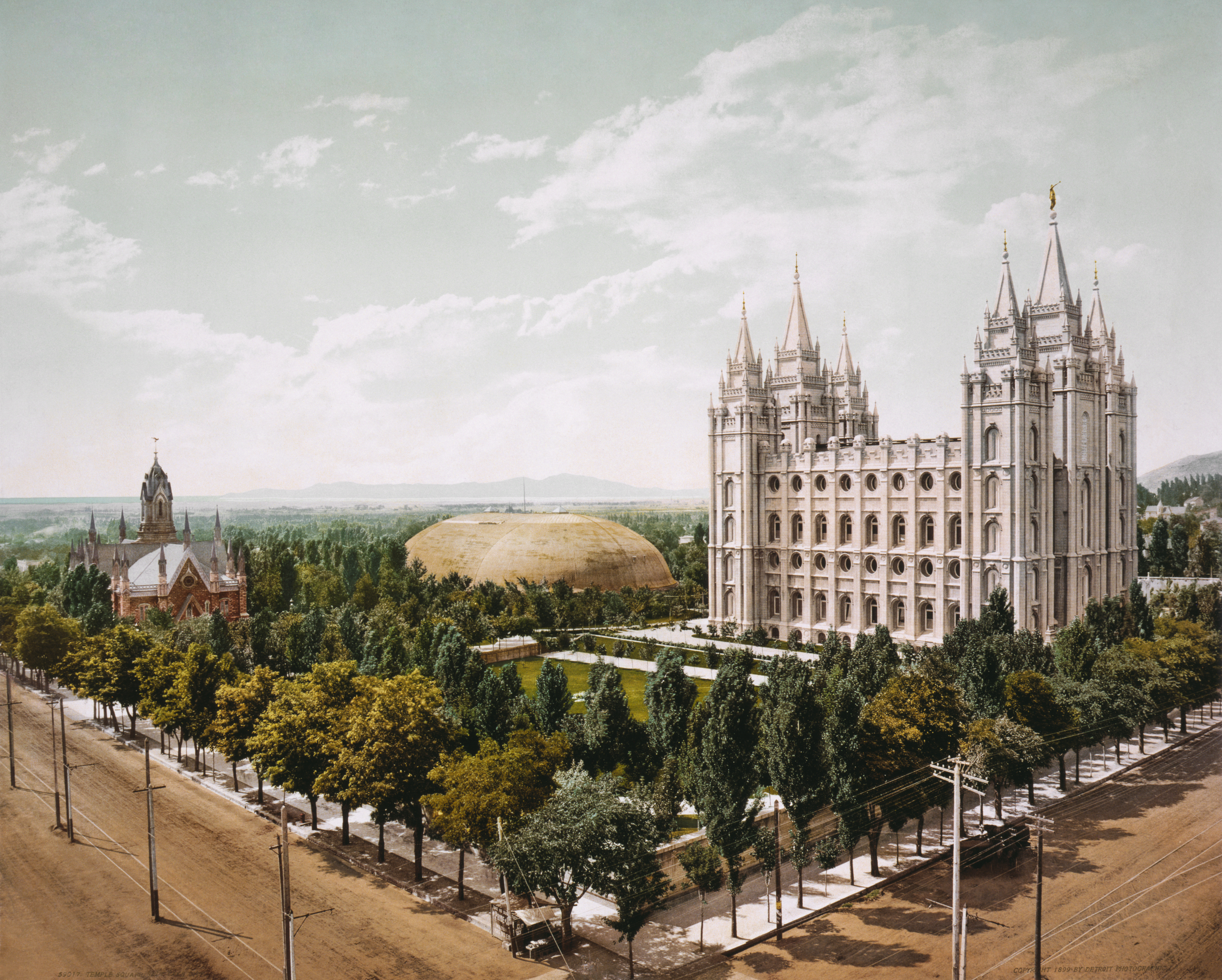 Temple Square, Salt Lake City, Utah, in 1899. Photochrom print.